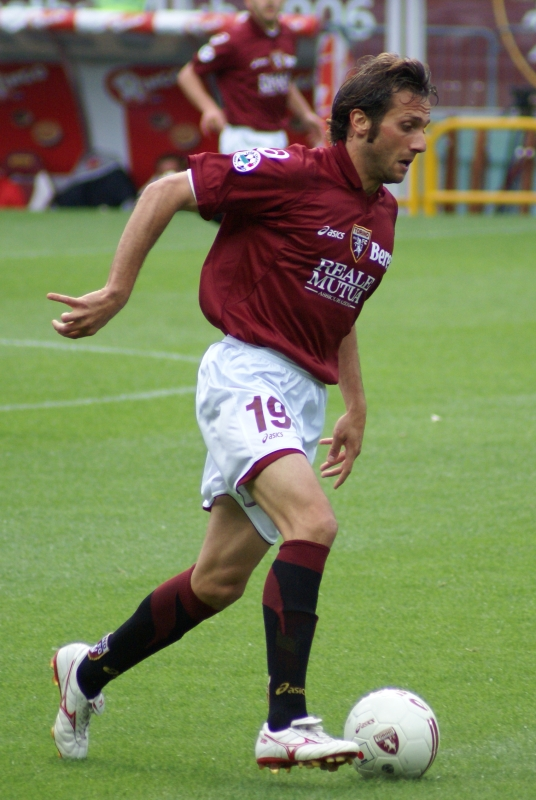 Italian football (soccer) player Elvis Abbruscato